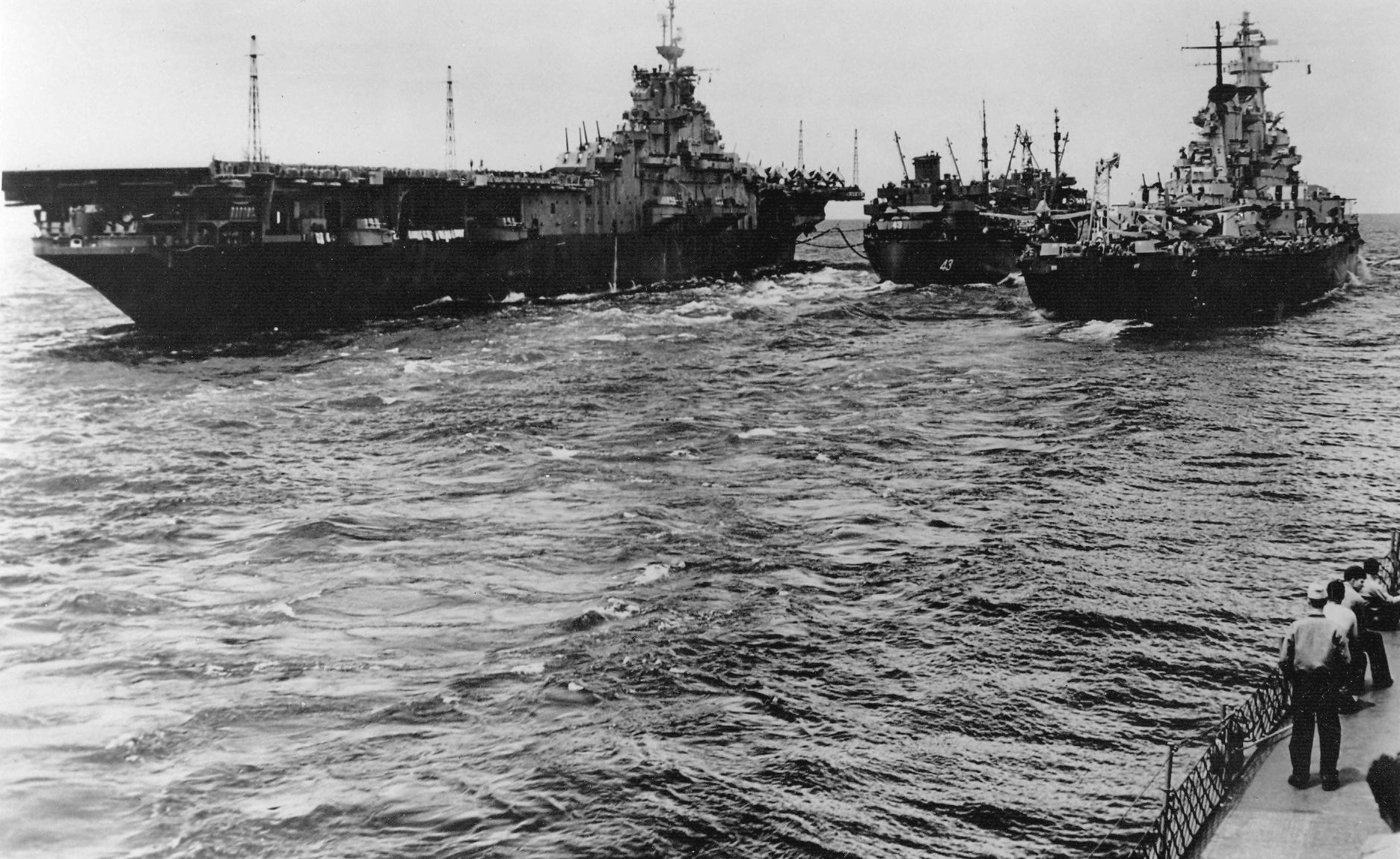 The U.S. Navy fleet oiler USS Tappahannock (AO-43) refueling the aircraft carrier USS Bon Homme Richard (CV-31) and the battleship USS Missouri (BB-63), in July 1945.